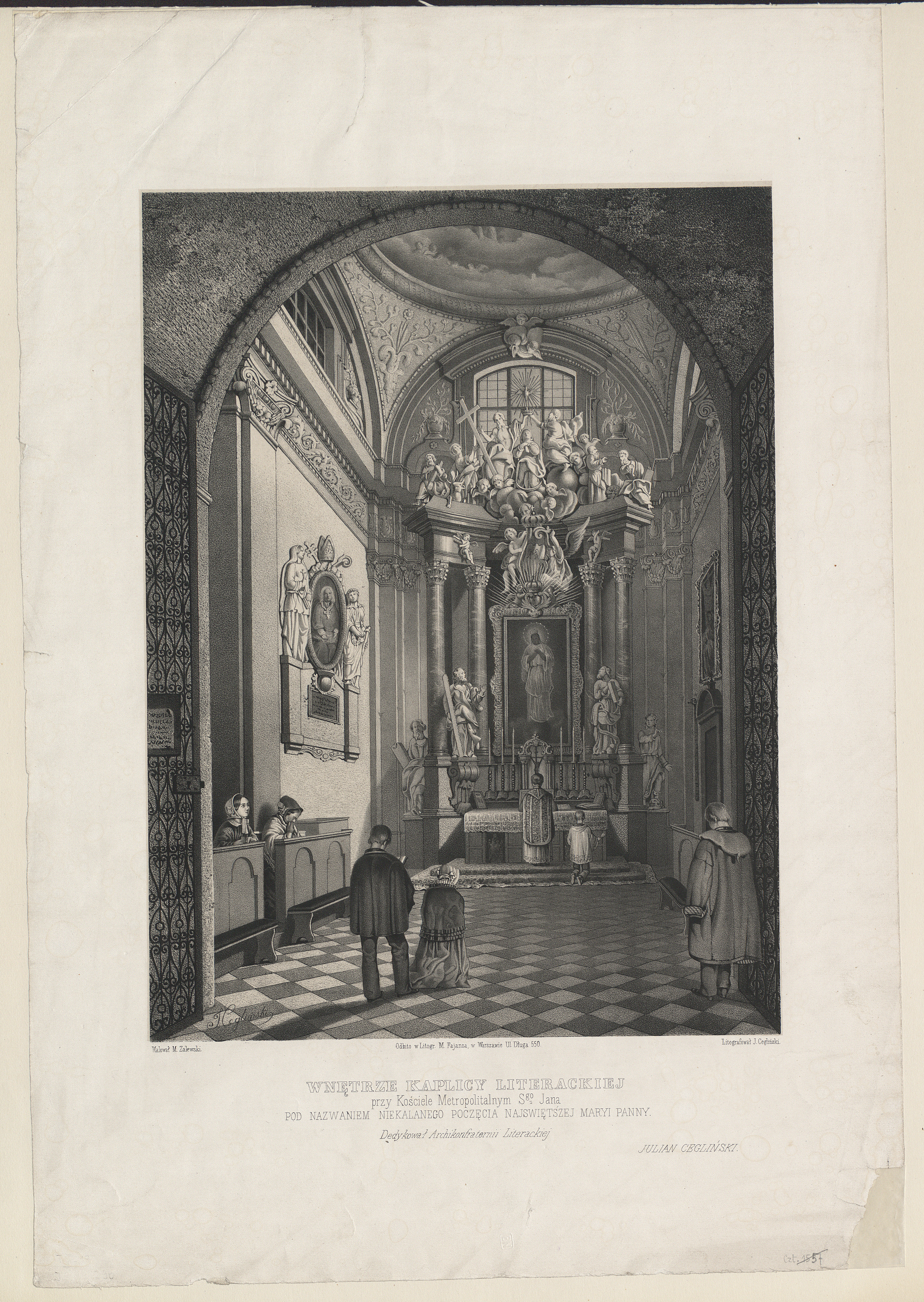 Kaplica Literacka (Literary Chapel) in St John's Cathedral, Warsaw